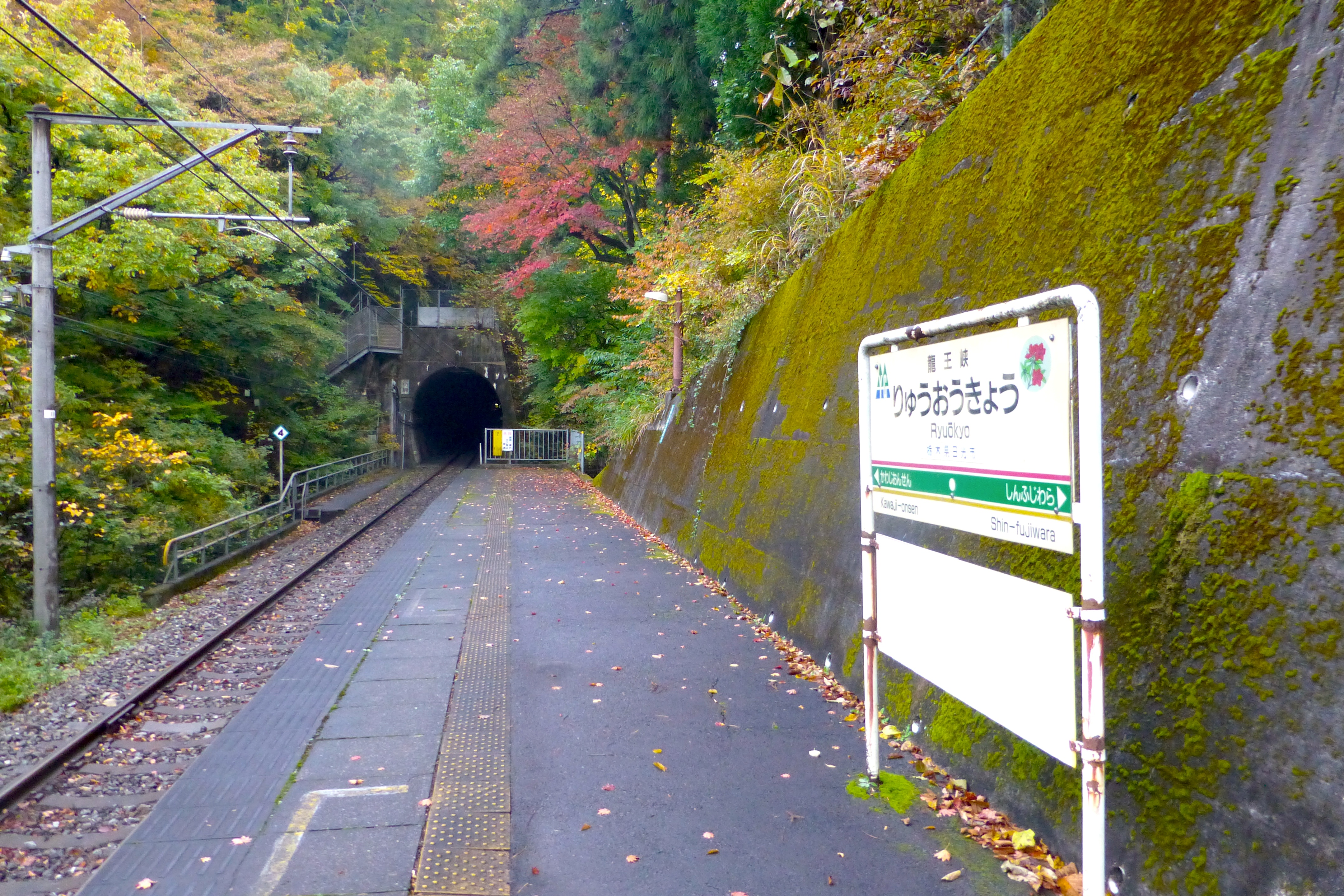 Ryūōkyō Station Platform (Fall)